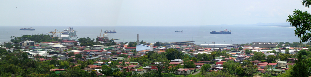 Panoramic view of Limón, Costa Rica from El Faro Restaurant